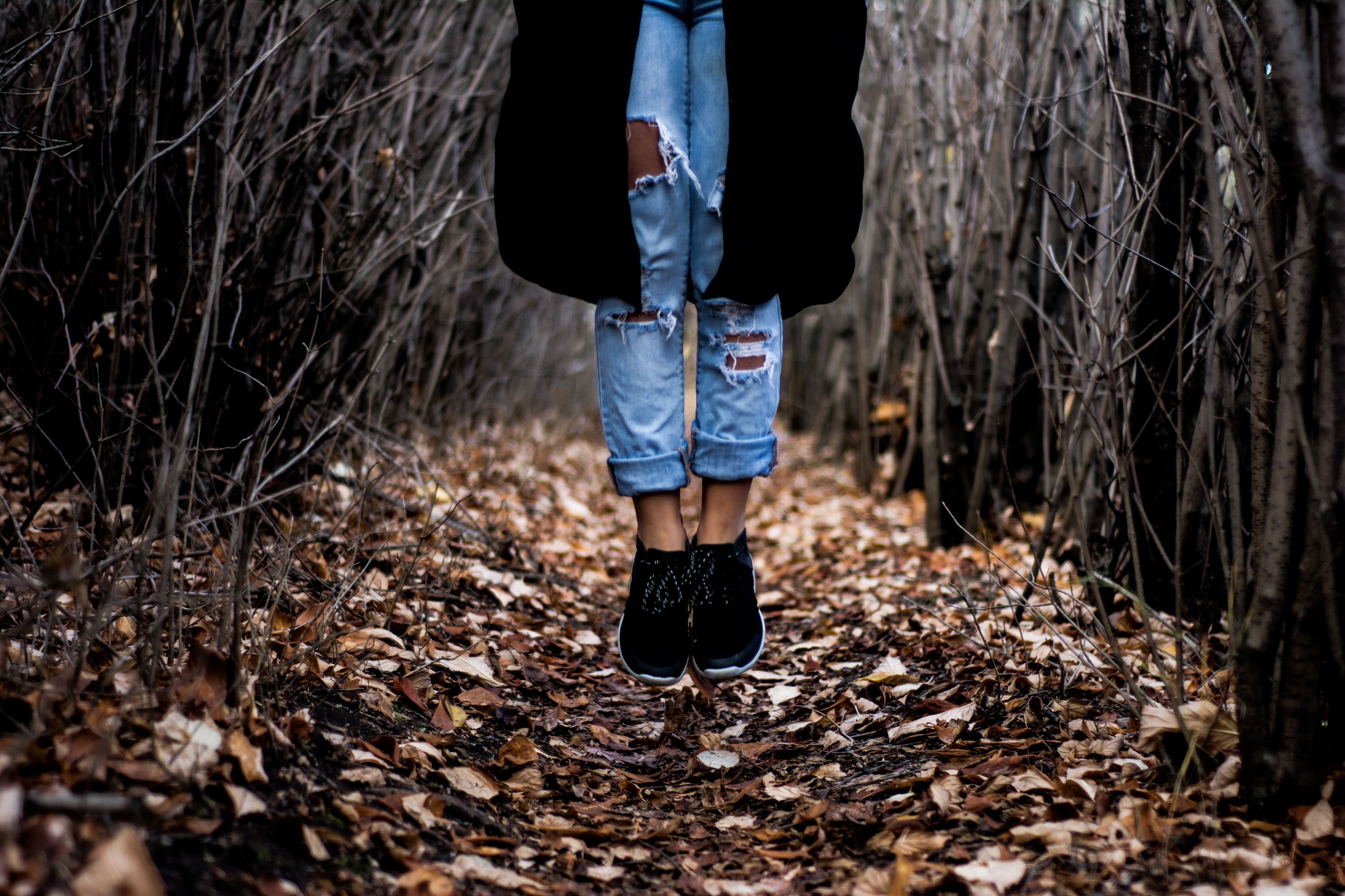 Edmonton, Canada